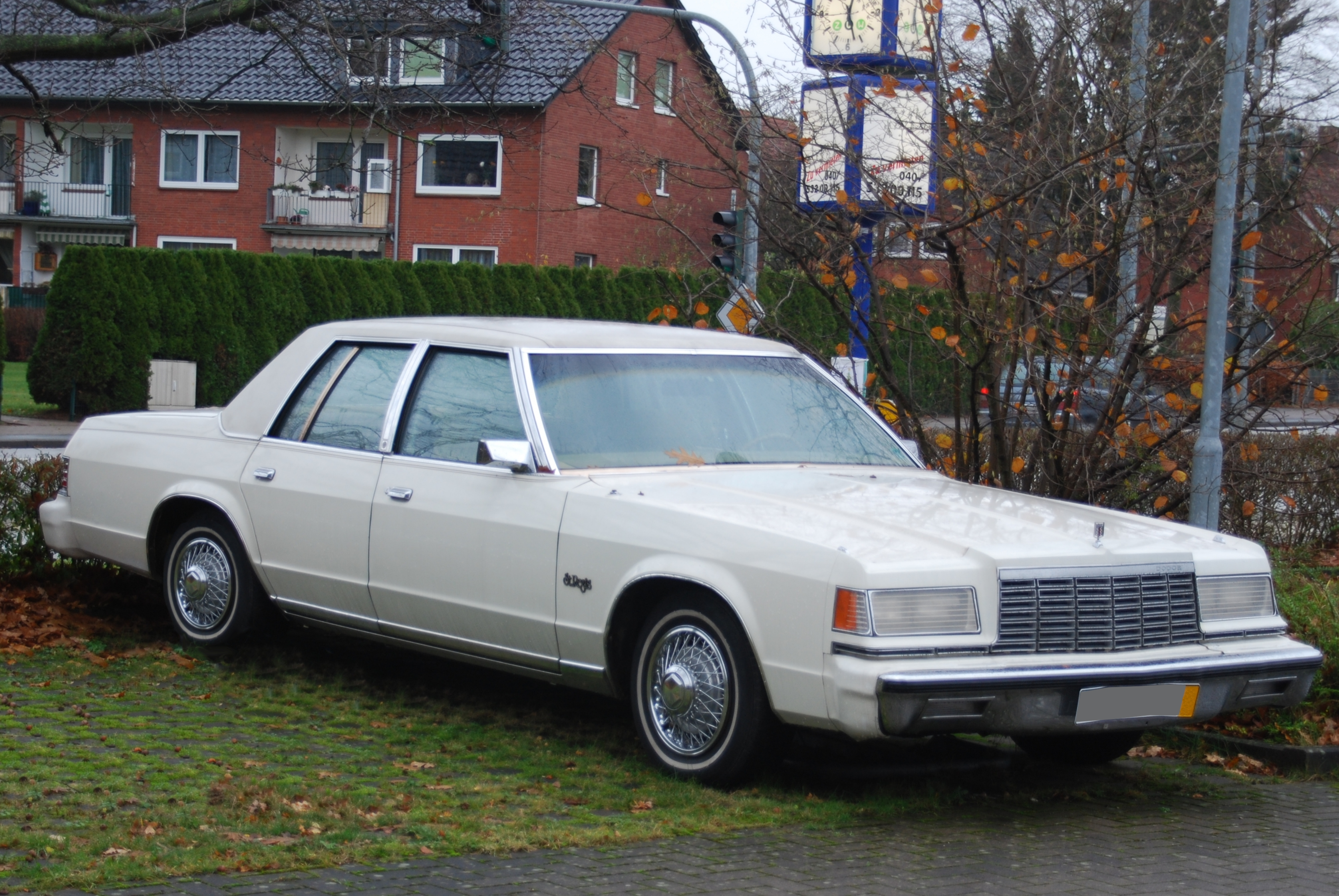 Dodge St. Regis